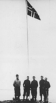 The Norwegian occupation of Greenland